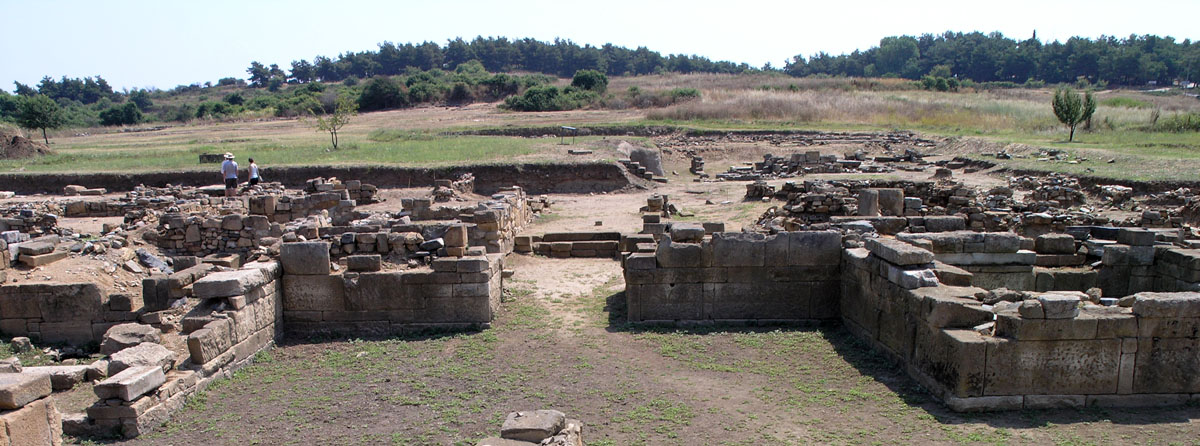 Abdera's West gate (2nd enceinte) as seen from the East. Photography taken by Marsyas on 07/24/2004.